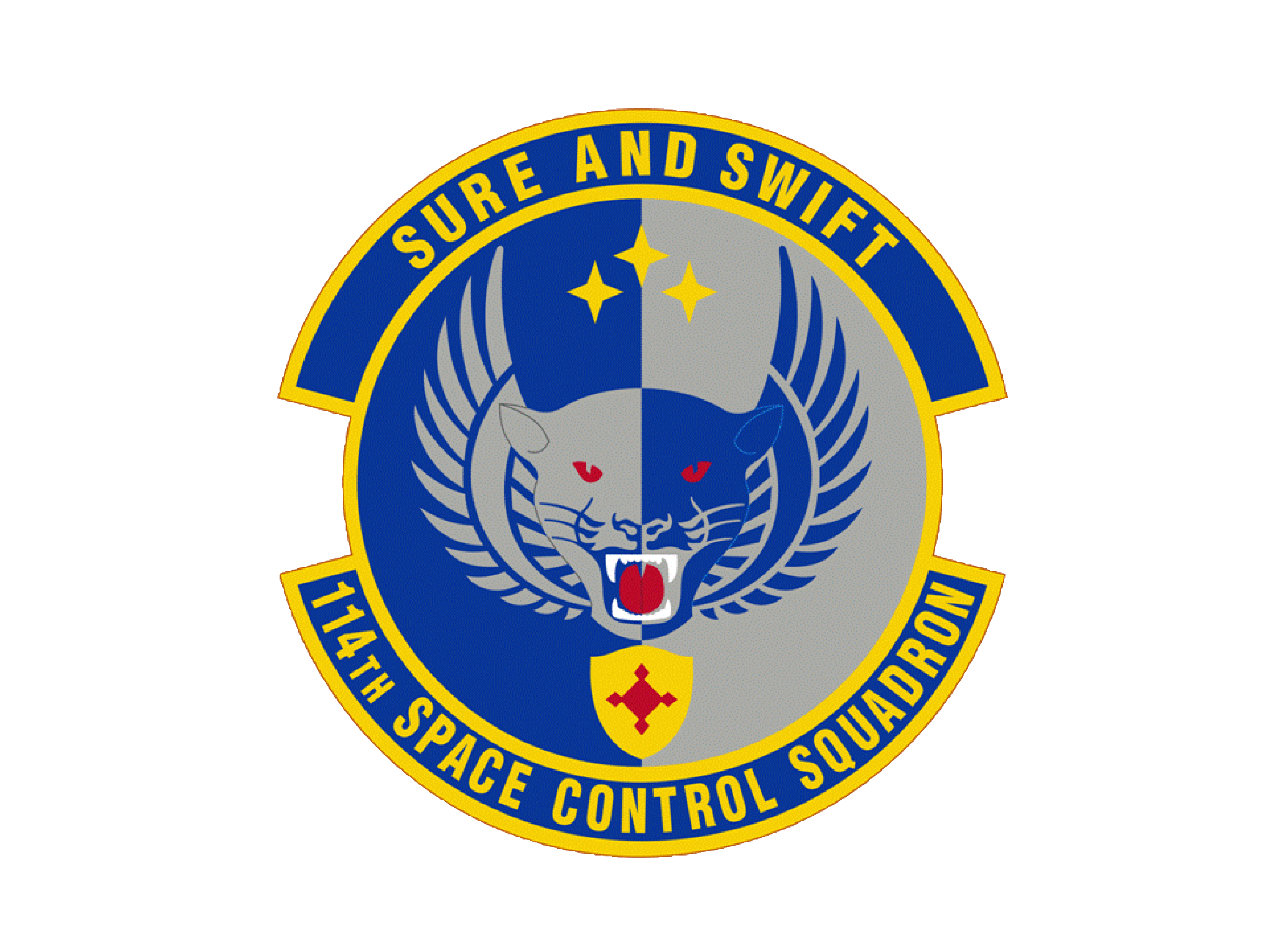 This is the unit emblem of the 114th Space Controll Squadron